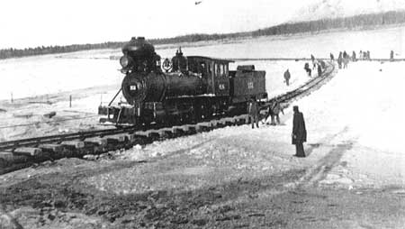 Sumary from American Memory site: Alaska Railroad engine crossing the Tanana River on the ice at Nenana, just prior to completion of the railroad.